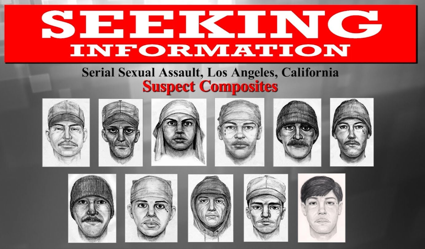 FBI's newly released composite sketches of the suspect